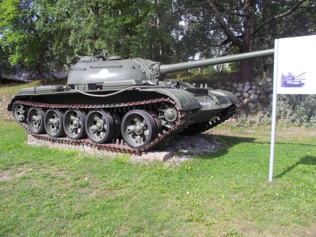 Lappeenranta garrison tank T-54